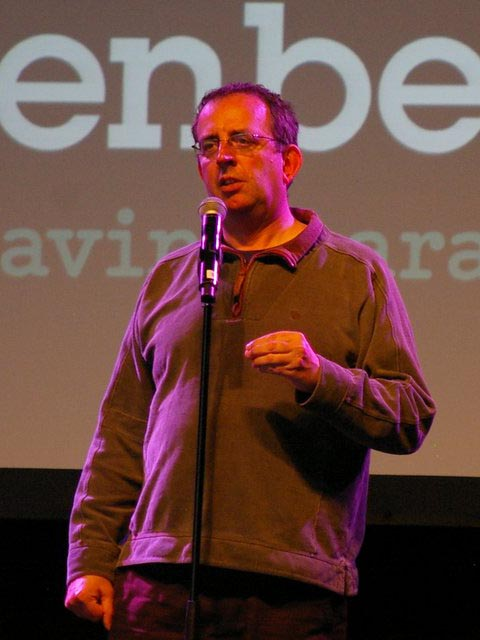 Rev Richard Coles presenting a speech "Saving Paradise" at Greenbelt 2012. Richard was formerly a member of UK music group The Communards before becoming an ordained minister in the Church of England. He is an advisor for the UK television show Rev starring Tom Hollander and presents religious shows on BBC Radio. Richard has also featured on the quiz show QI.